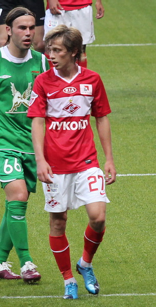 Zhano Ananidze